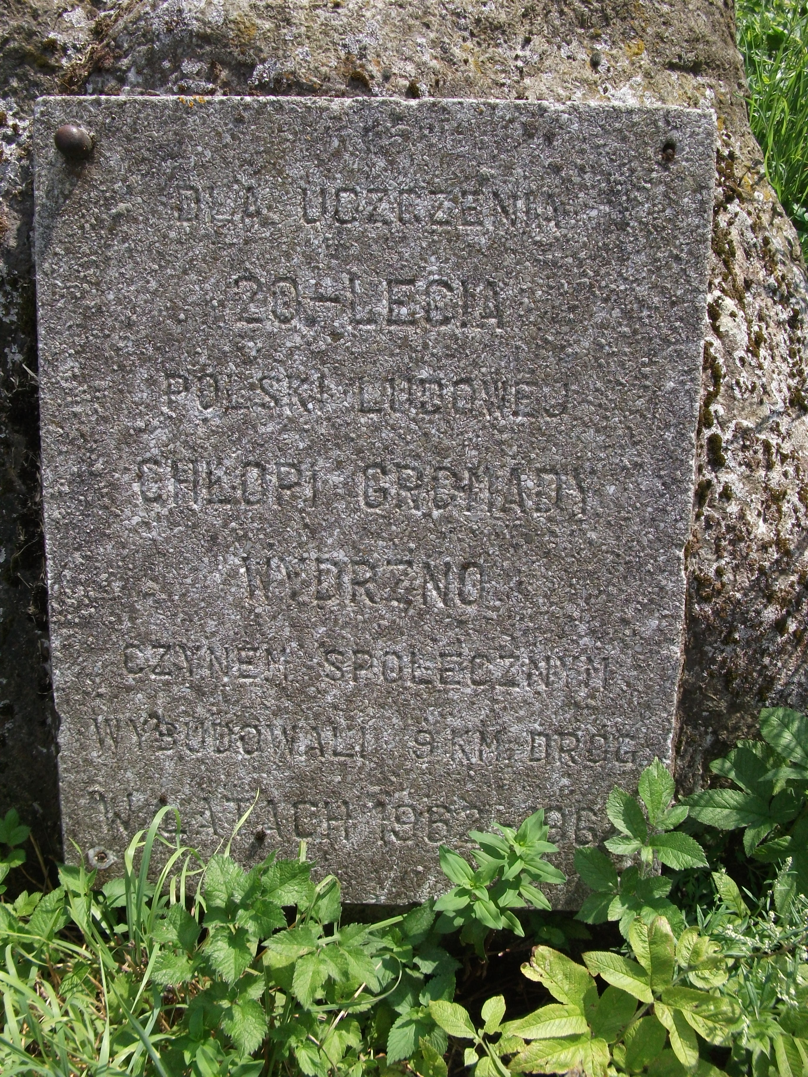 Memorial about "Gromada Wydrzno" in village Szembruk, Poland